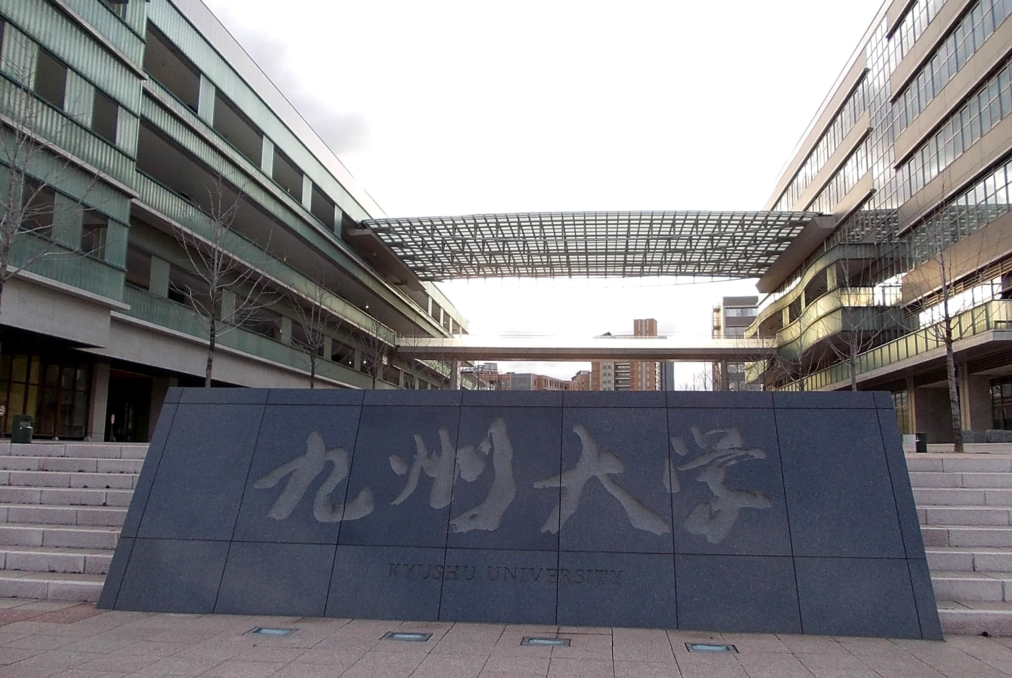 Kyushu Univ., Japan 2010